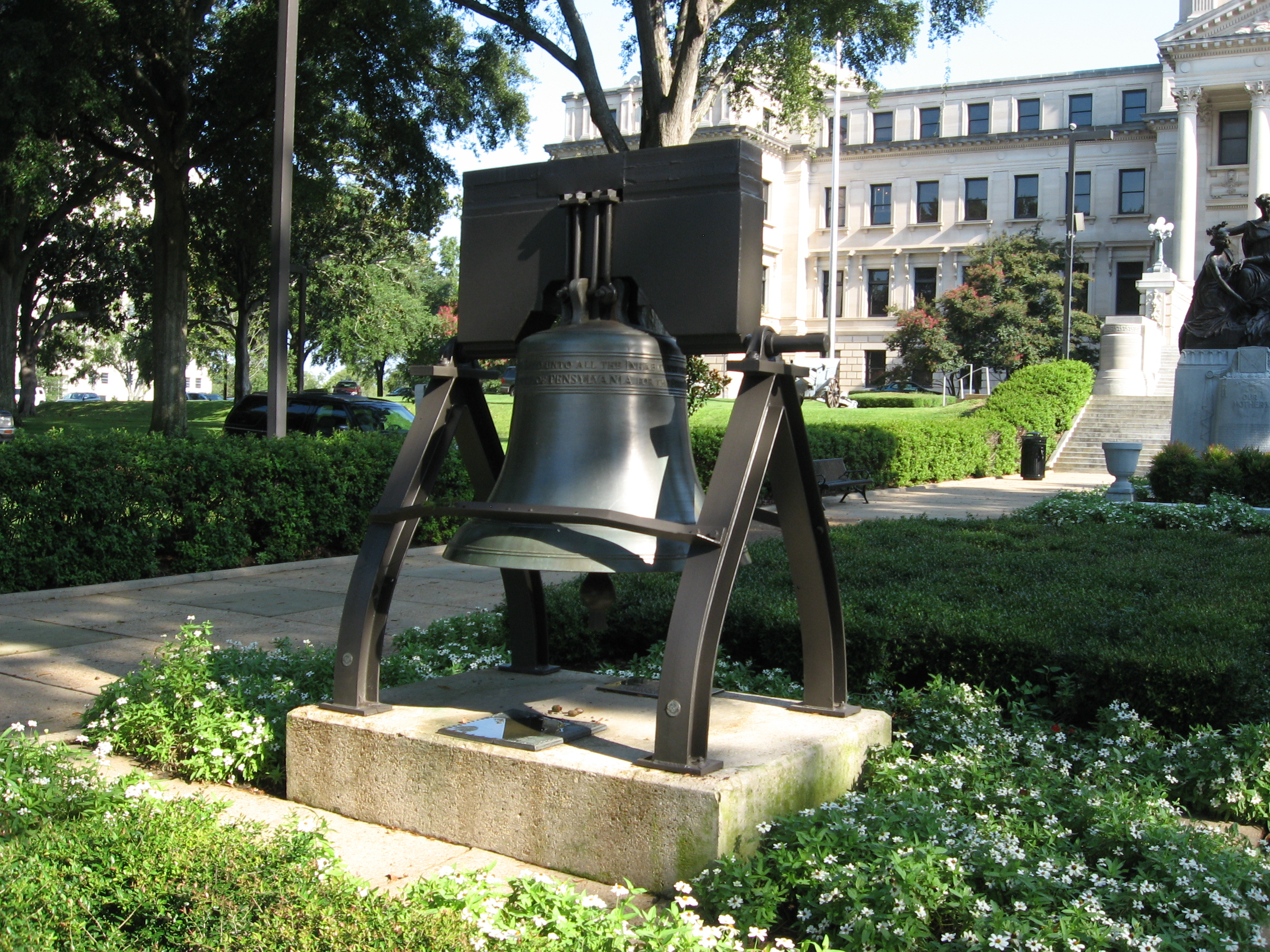 Liberty Bell Replica, in Mississippi State Capitol ground, Jackson, Mississippi, United States.